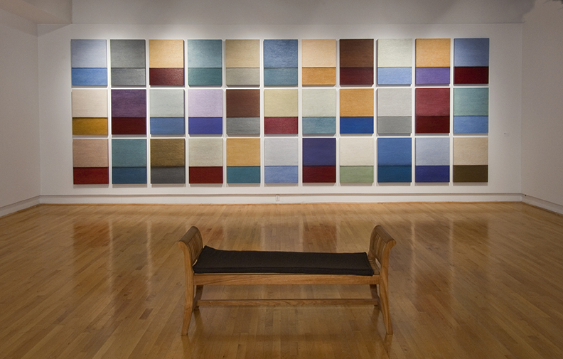 Aligned; Paintings by Tobi Kahn Exhibition at The Art Gallery, University of Maryland. 2011